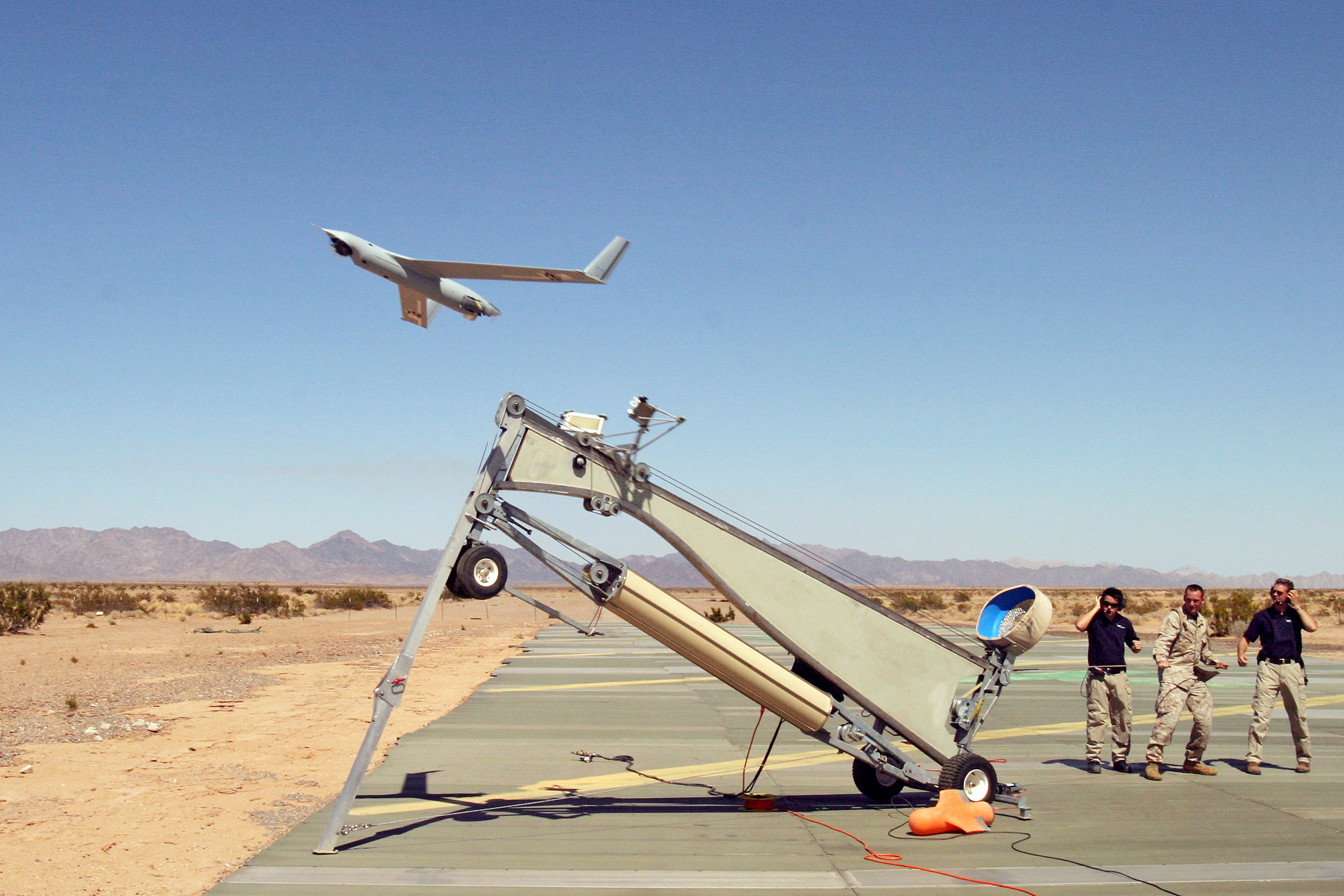 Yuma, Ariz. (June 16, 2006) - U.S. Marine Corps Sgt. Michael Kropiewnicki, a Combat Videographer assigned to 2nd Marine Aircraft Wing (MAW) Combat Camera, launches a Boeing Scan Eagle Unmanned Aerial Vehicle (UAV) during the training exercise Desert Talon 2-06 onboard Marine Corps Air Station (MCAS). The Scan Eagle UAV is a small GPS-guided plane that can fly over a designated battle space for up to fifth-teen hours and transmit real-time imagery directly to its home link. It weighs 40 lbs and has a ten-foot wingspan. It is invisible to radar and is barely audible once within 50 ft. U.S. Marine Corps photo by Sgt Guadalupe M. Deanda III (RELEASED)